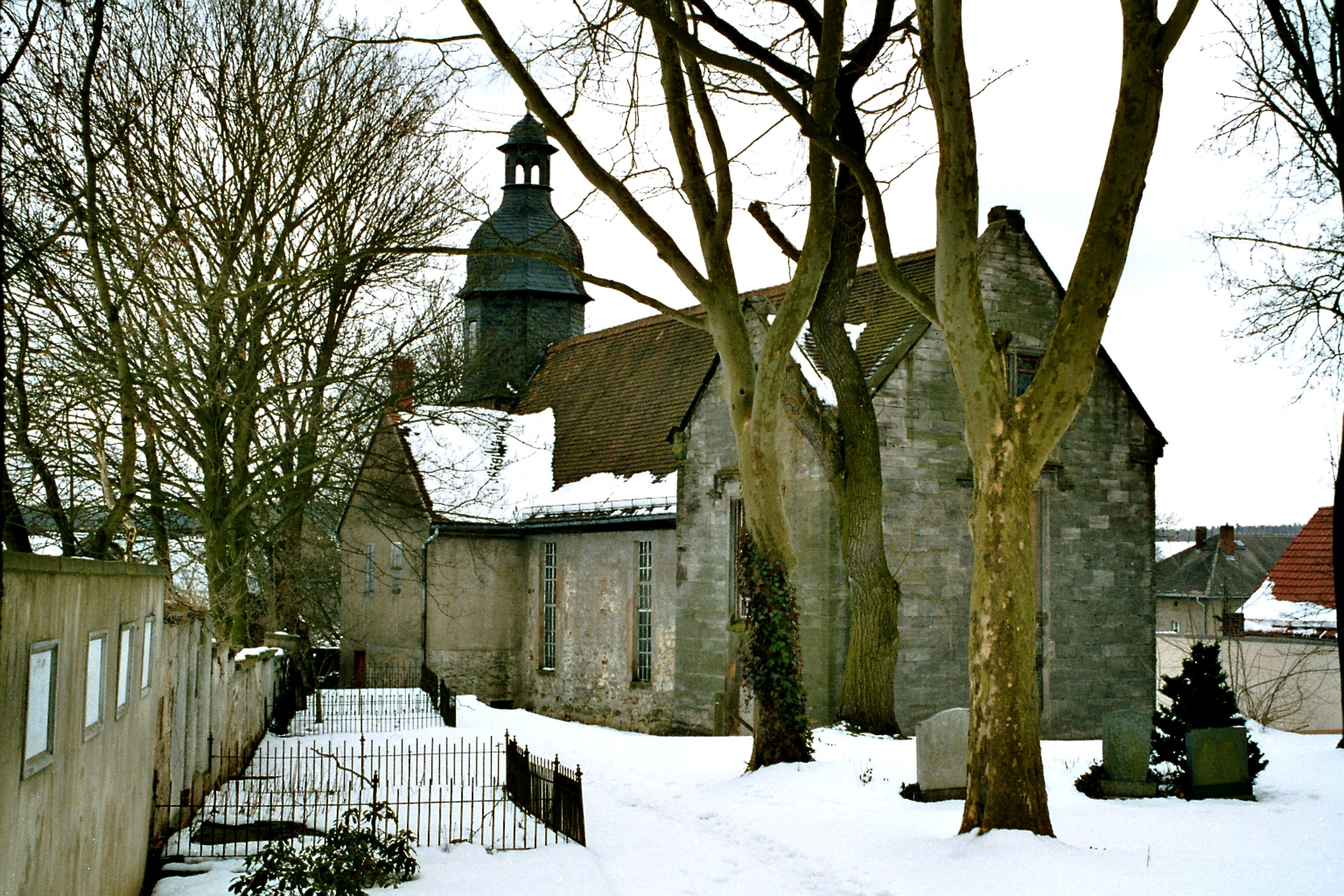 The village church in Serba